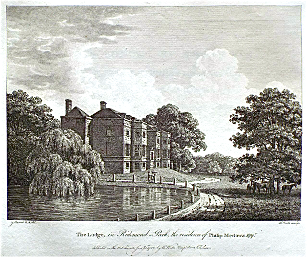 The Lodge in Richmond Park, the residence of Philip Meadows Esq.